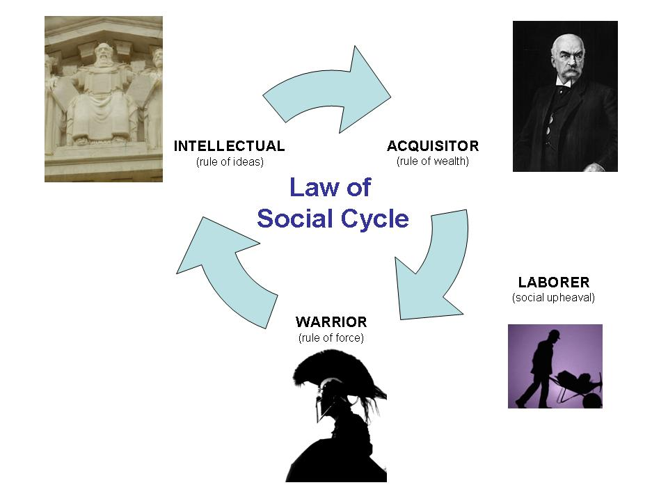 Sarkar's Law of Social Cycle